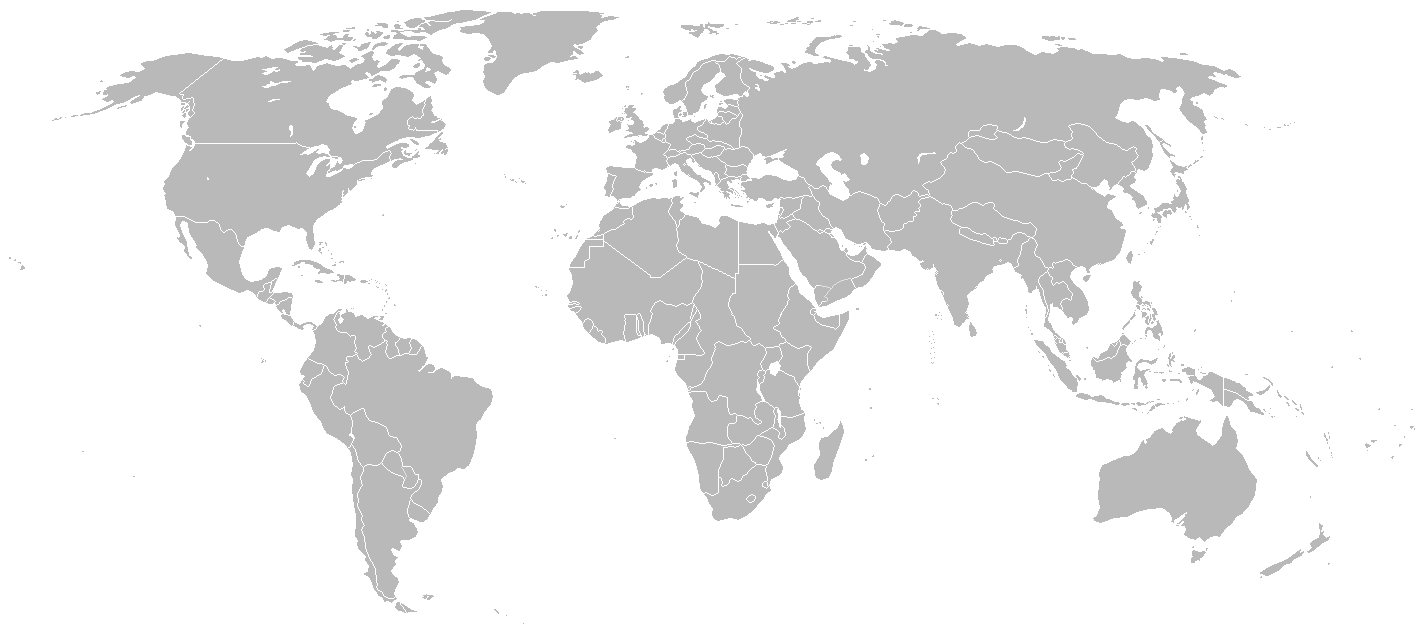 Map of the world in 1937.